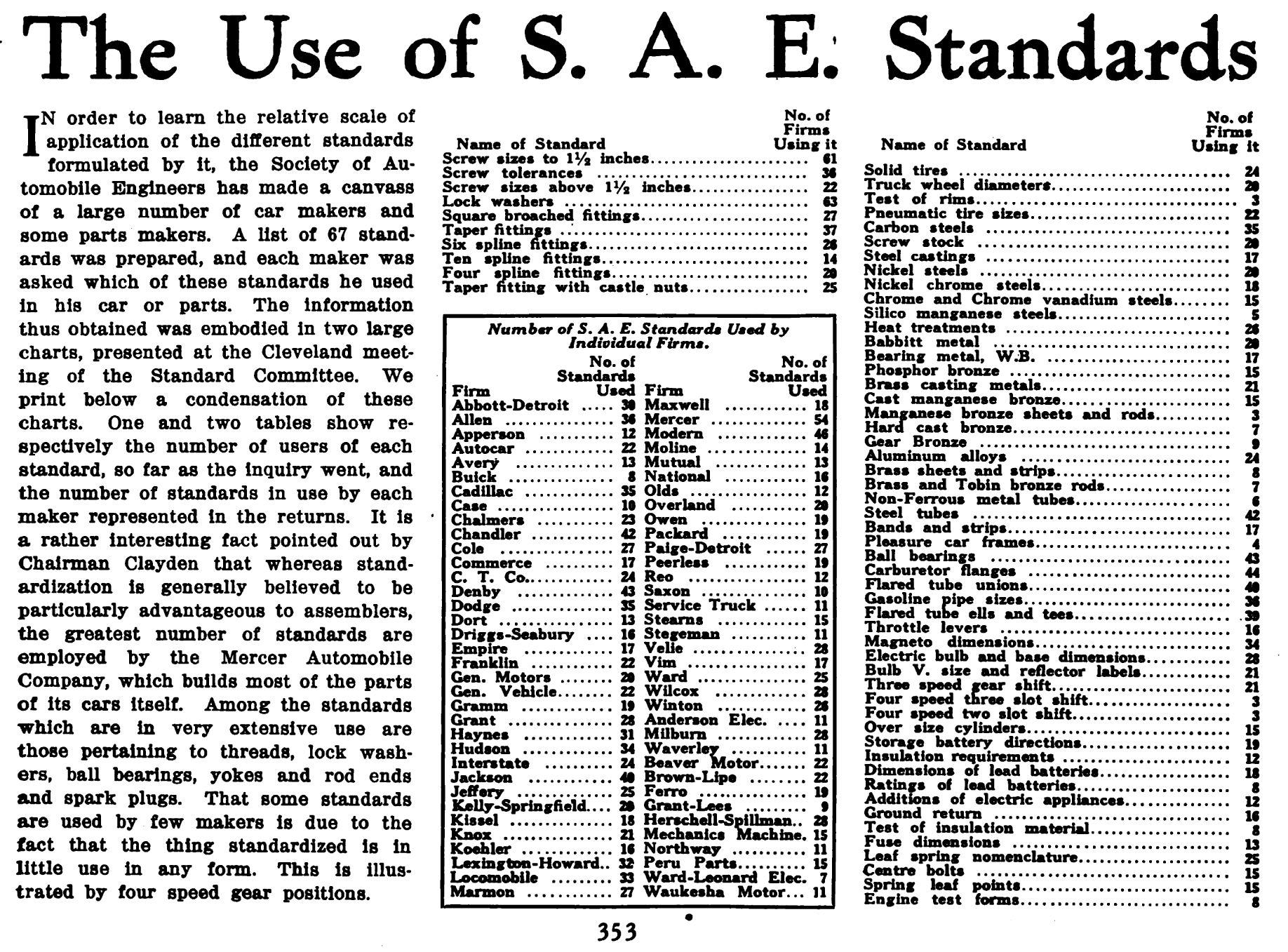 Survey results on the use of SAE standards, reported in the journal Horseless Age, volume 37, number 9, May 1, 1916, page 353.